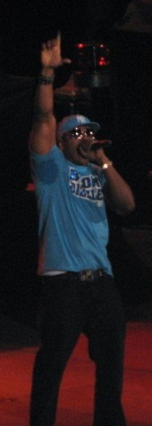 LL Cool J in concert at the Arizona State Fair with sweat under his armpits.